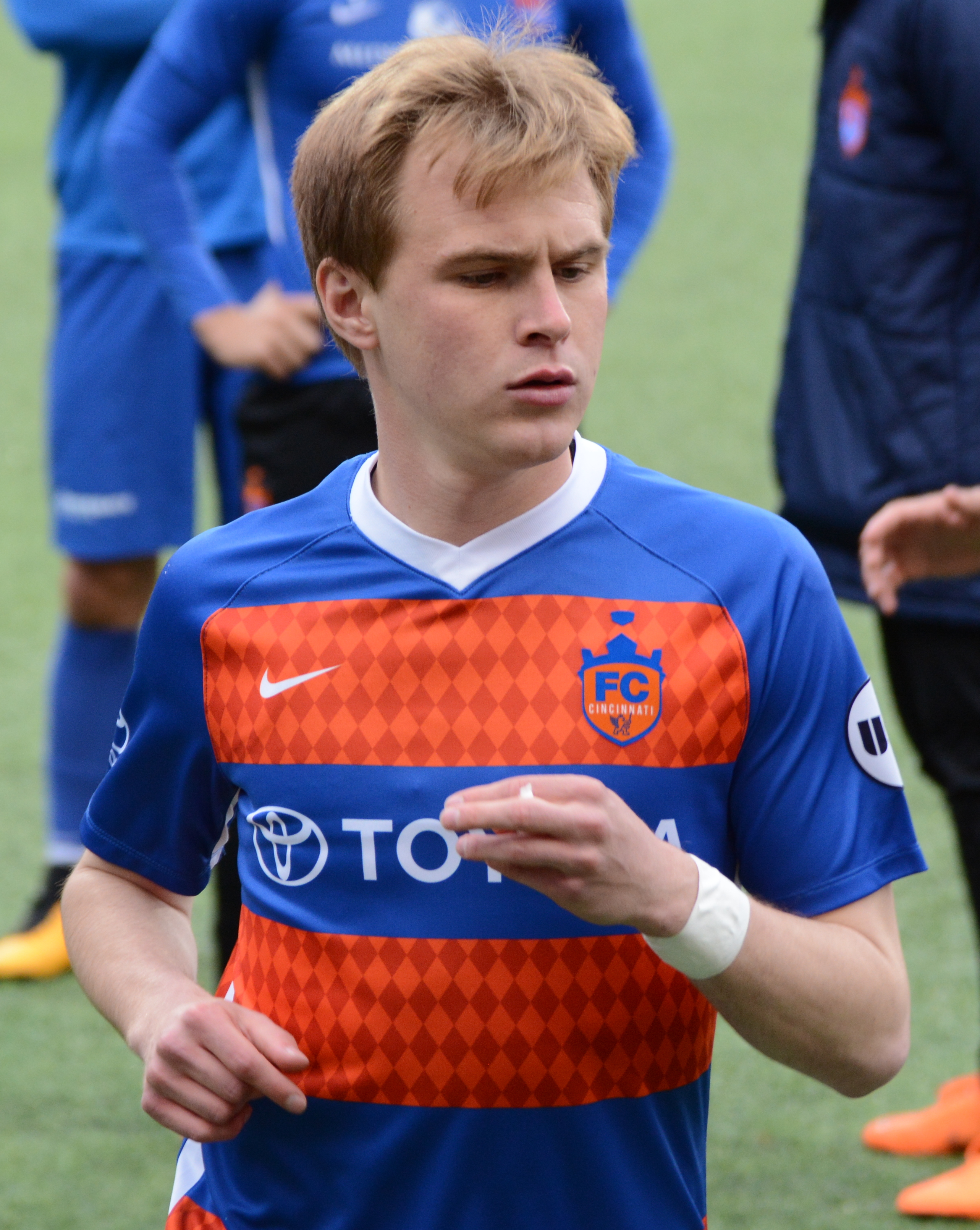 American soccer player Jimmy McLaughlin, a midfielder for FC Cincinnati, warming up near his team's bench shortly before the start of a match. Taken during a USL regular season match between FC Cincinnati and Pittsburgh Riverhounds at Nippert Stadium in Cincinnati, USA on April 21, 2018.